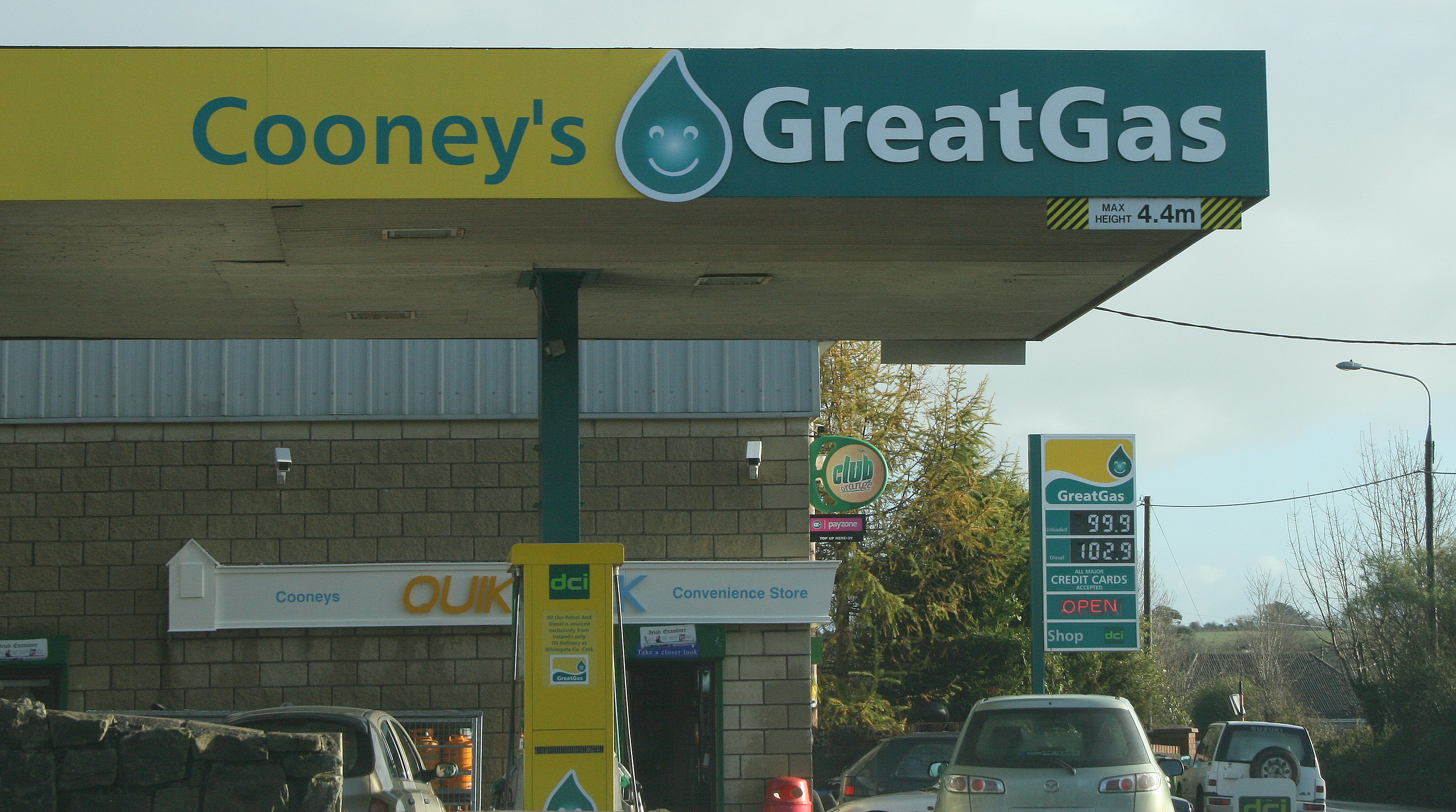 Petrol station on the R618 road in Coachford, County Cork.